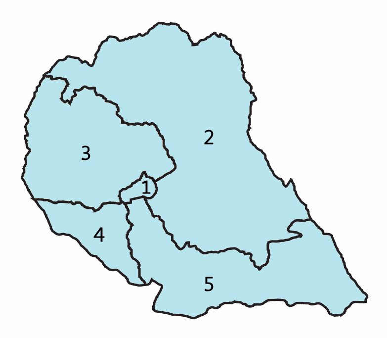 Map showing the Municipios, Provincia de Litoral, Departamento de Oruro, Bolivia. the municipalities of Litoral Province, based on data from El Instituto Nacional de Estadística (Bolivia)